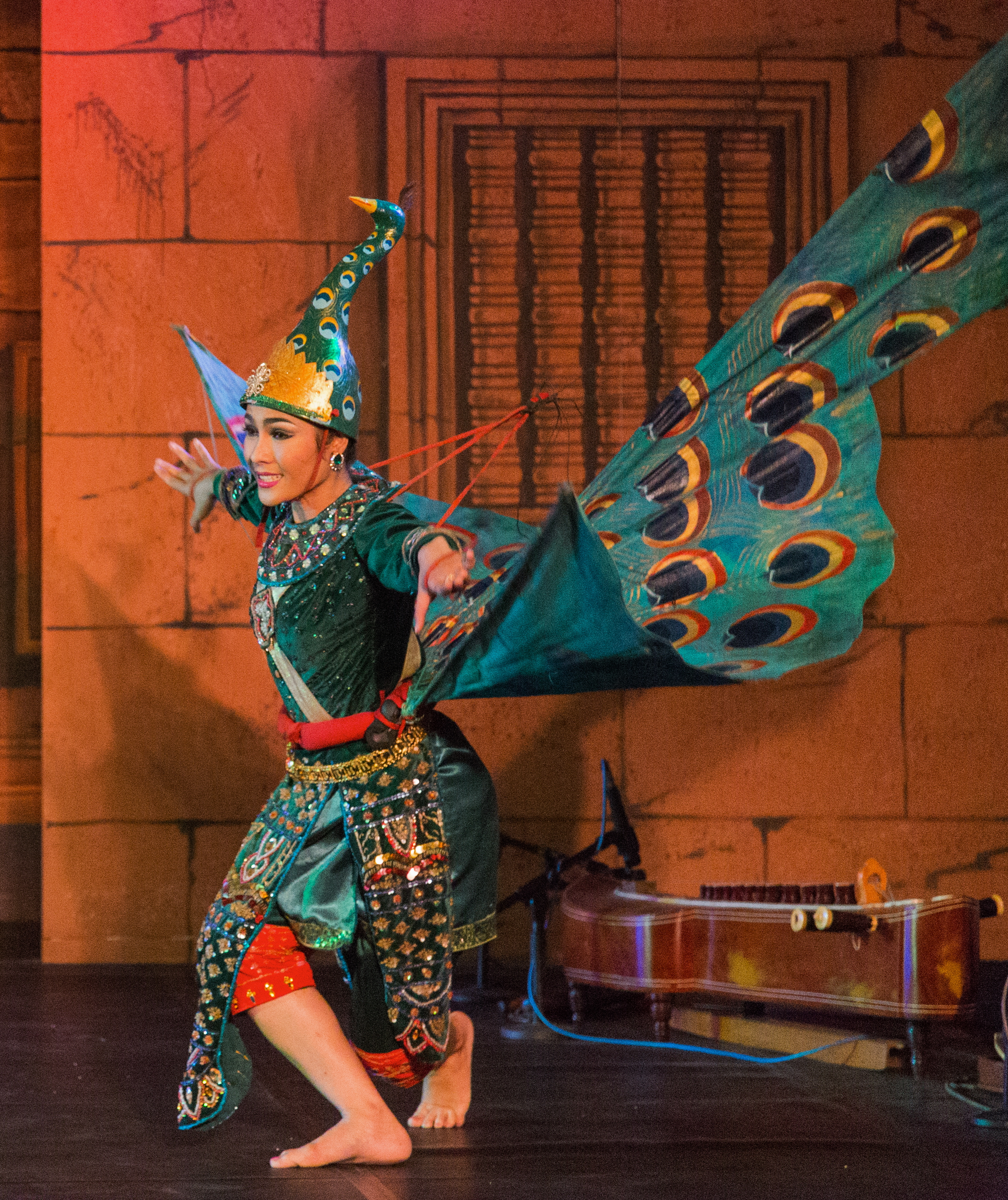 Traditional Cambodian Dance Show - Pailin Peacock Dance. Phnom Penh, Cambodia.